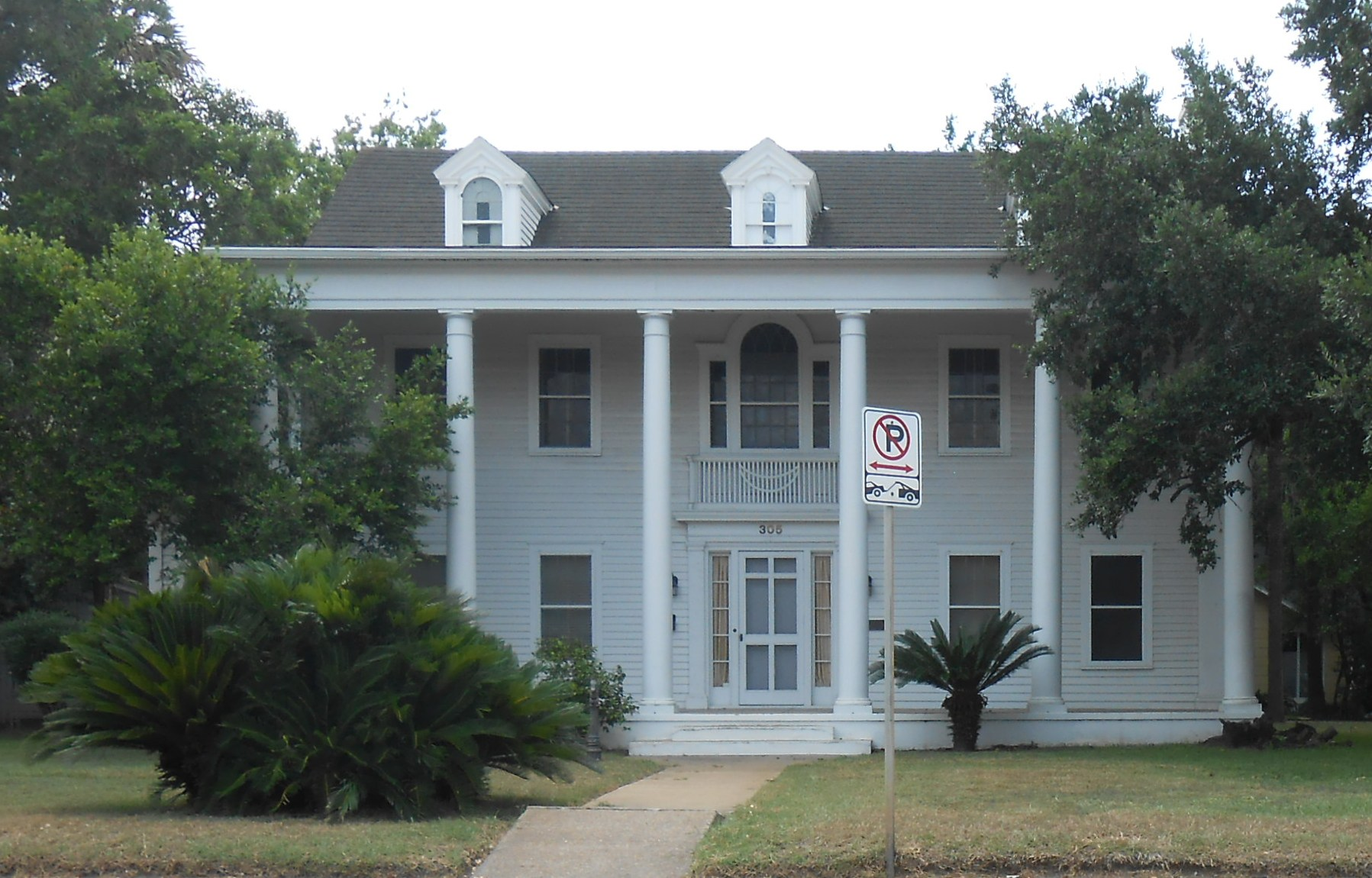 Barden-O'Connor House, 305 N. Moody Street, Victoria, Texas